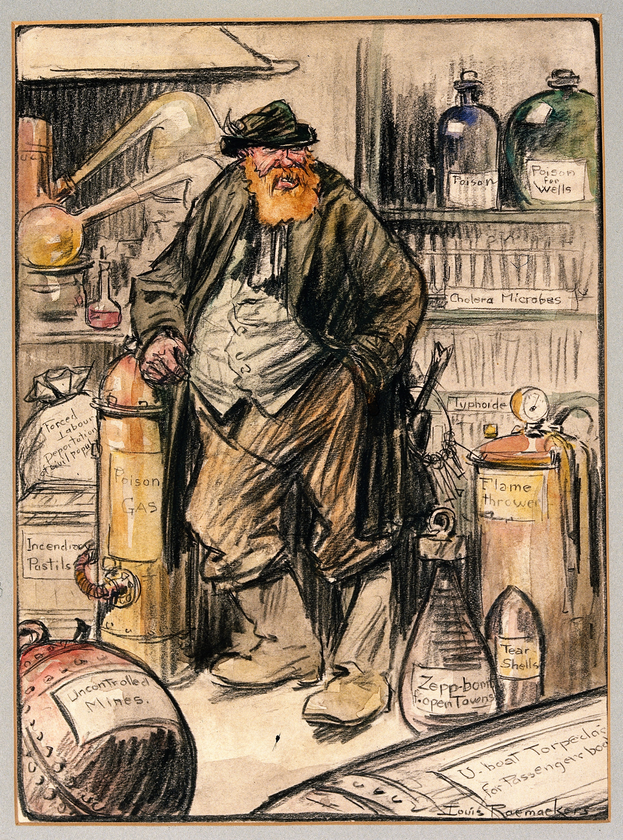 World War I: "The Hun Ministry of Munitions" (stocks for germ warfare). Coloured chalks by Louis Raemaekers. Iconographic Collections Keywords: Louis Raemaekers